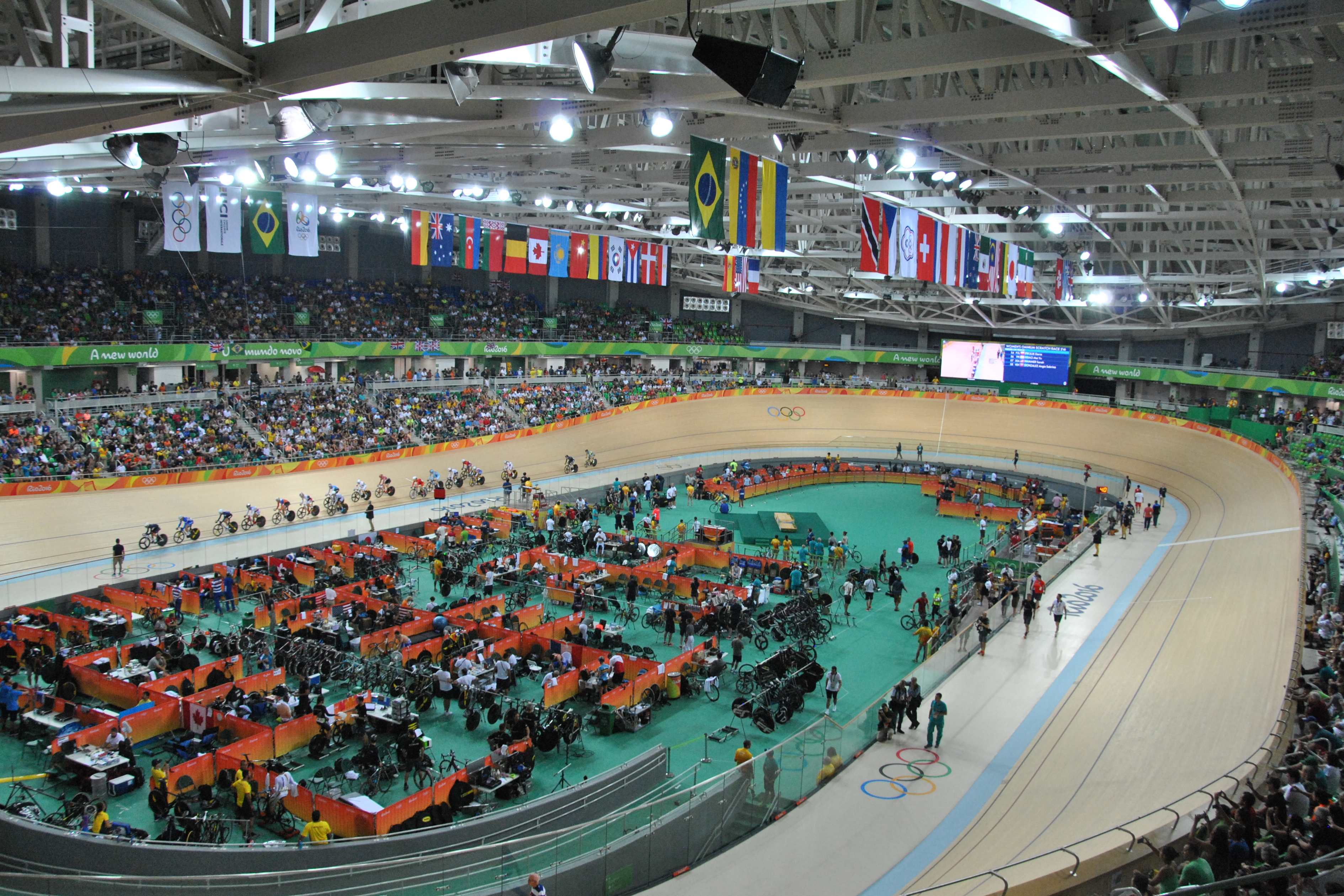 Rio Olympic Velodrome. Rio 2016